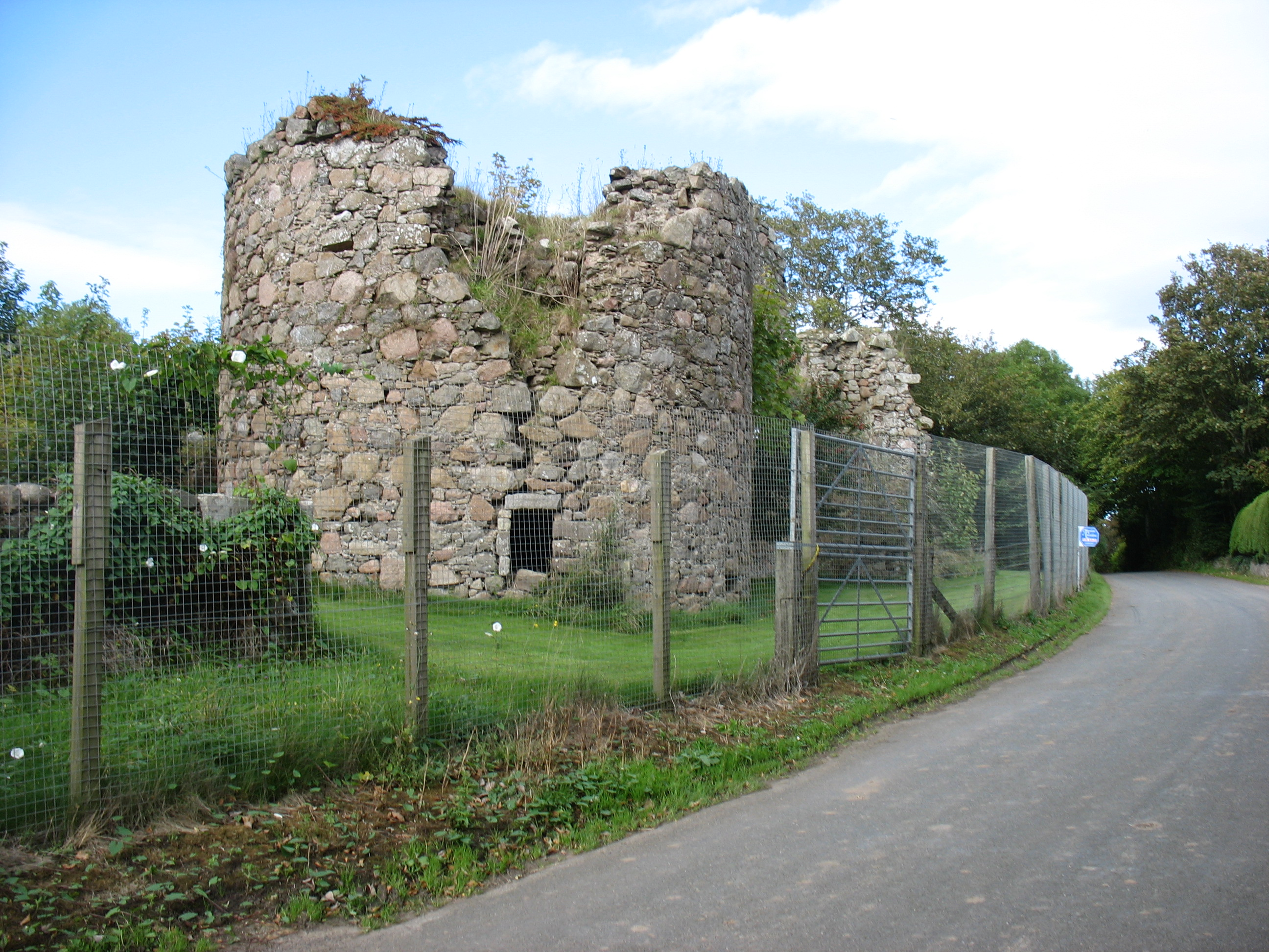 Inverugie Castle